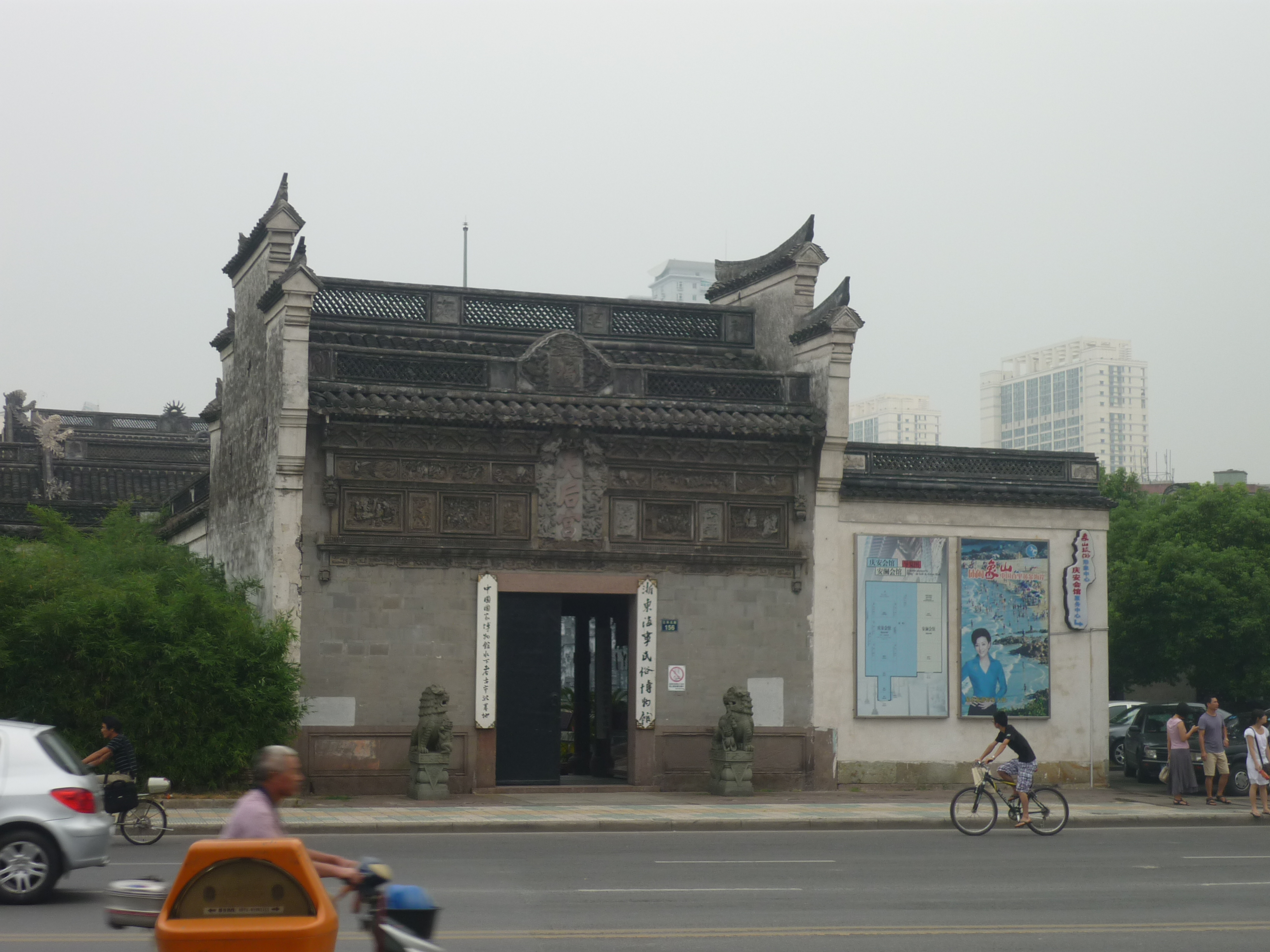 Qingan Association Gate